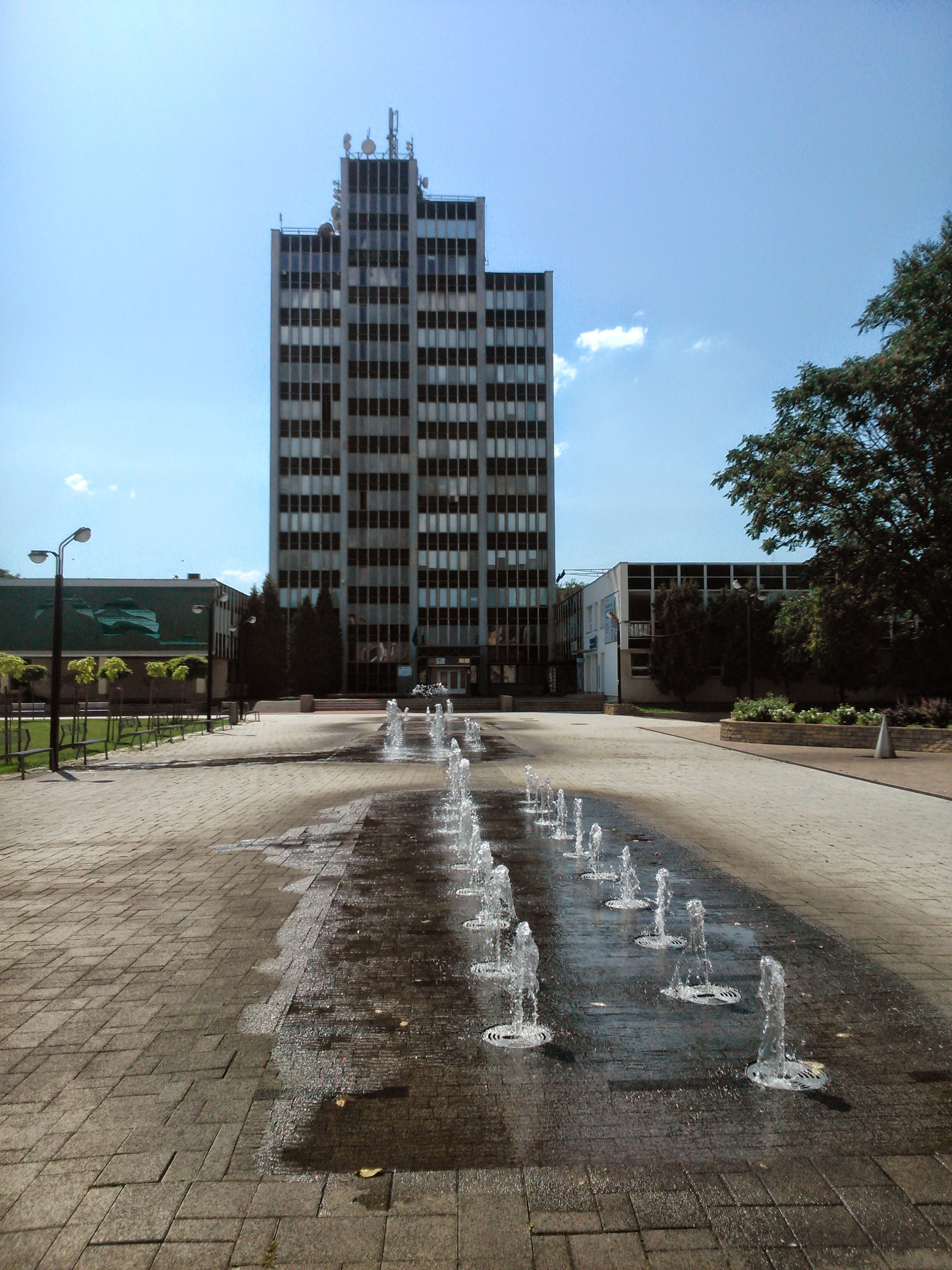 The highest building in Michalovce city and near fountain